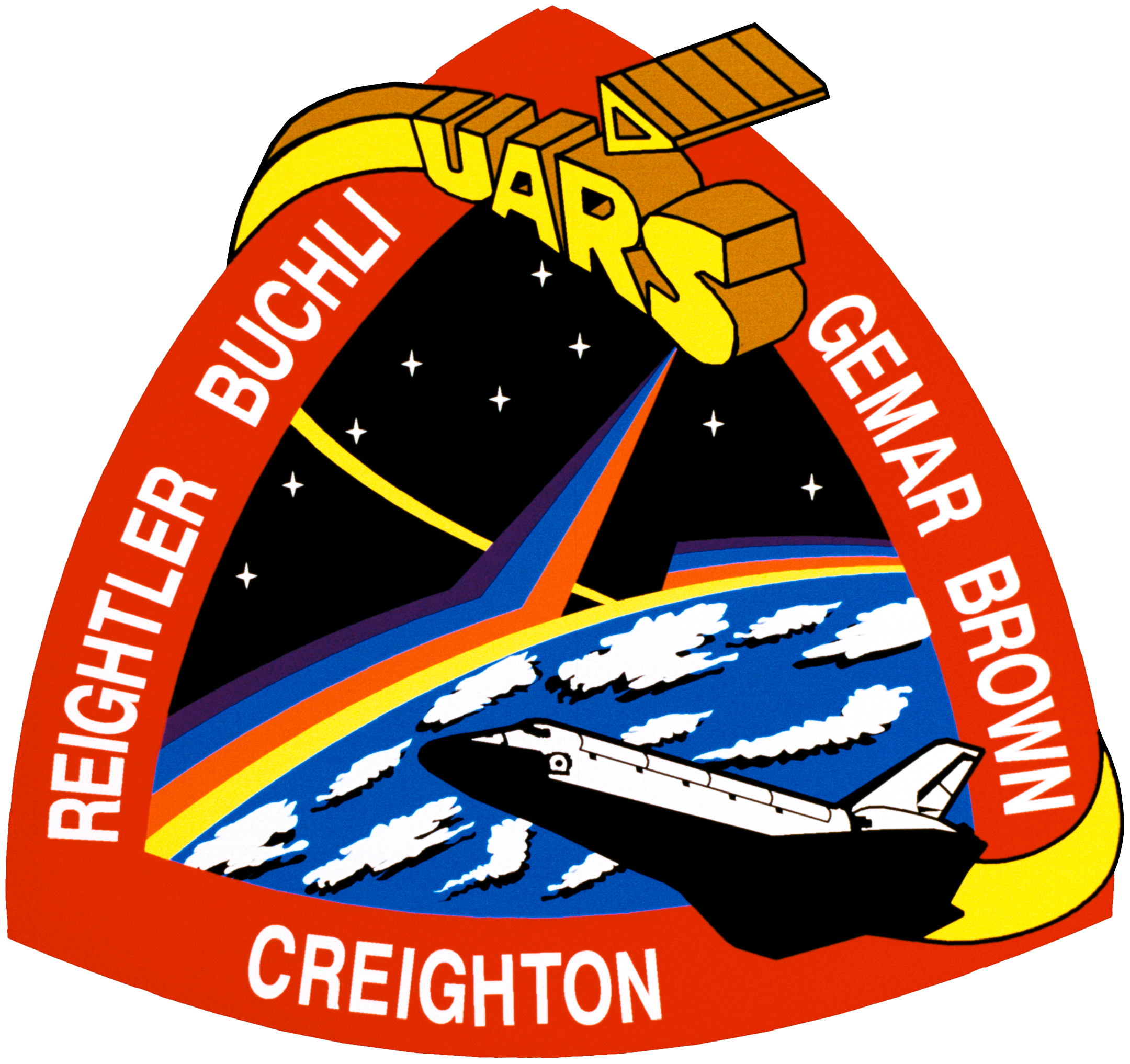 STS-48 Mission Insignia Designed by the astronaut crewmembers, the STS 48 patch represents the Space Shuttle Orbiter Discovery in orbit about the Earth after deploying the Upper Atmospheric Research Satellite (UARS) depicted in block letter style. The stars are those in the Northern Hemisphere as seen in the fall and winter when UARS will begin its study of Earth's atmosphere. The color bands on Earth's horizon, extending up to the UARS spacecraft, depict the study of Earth's atmosphere. The triangular shape represents the relationship among the three atmospheric processes that determine upper atmospheric structure and behavior: chemistry, dynamics and energy. In the words of the crewmembers, This continuous process brings life to our planet and makes our planet unique in the solar system.""